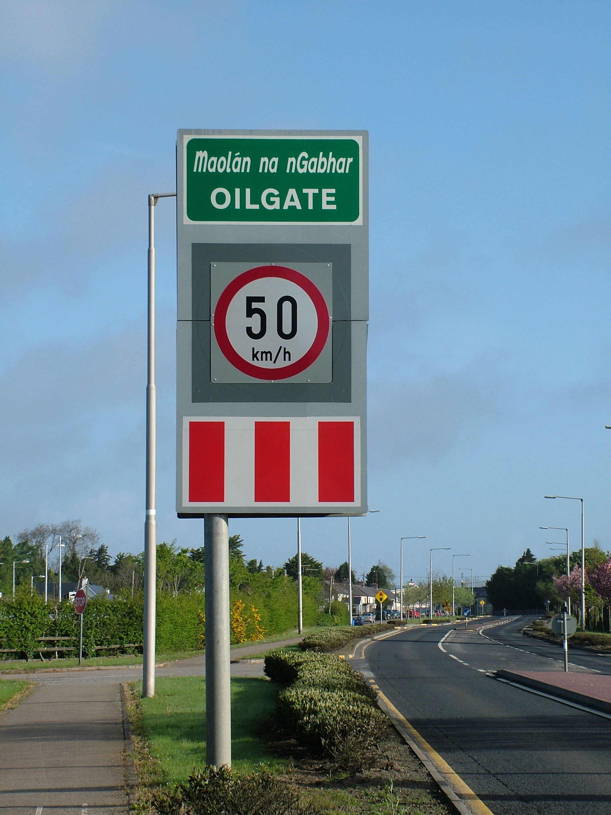 A picture of the road sign leading into Oylegate, showing alternate spelling in English and Irish. It was taken by myself on 7 May 2006. Article: Oylegate